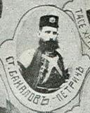 Portrait of IMARO member Stoyko Bakalov from Churicheni